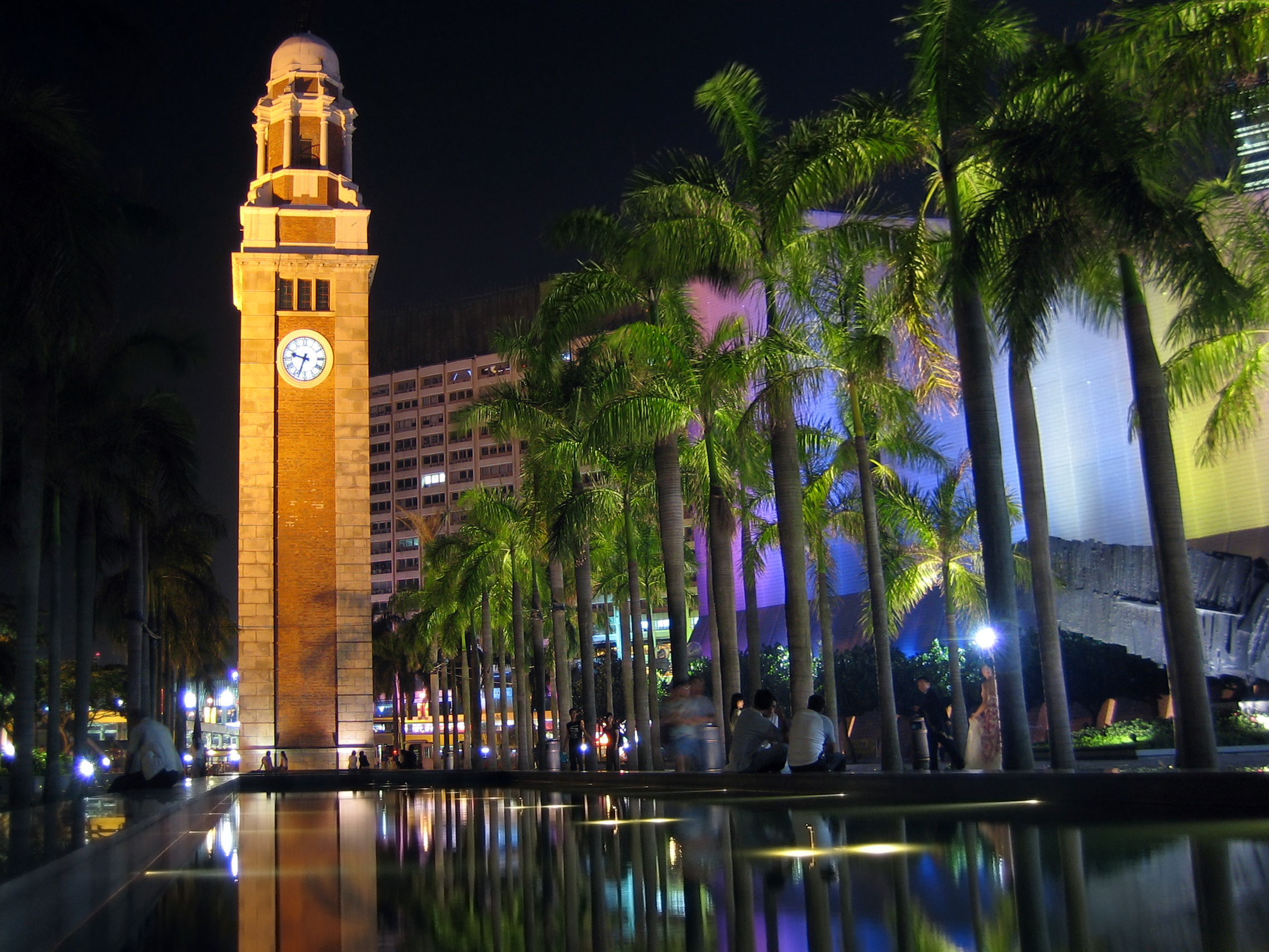 Former Kowloon-Canton Railway Clock Tower, Kowloon, Hong Kong